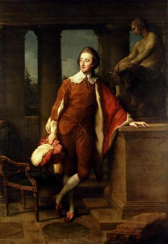 Portrait of Anthony Ashley-Cooper, 5th Earl of Shaftesbury (c.1785)